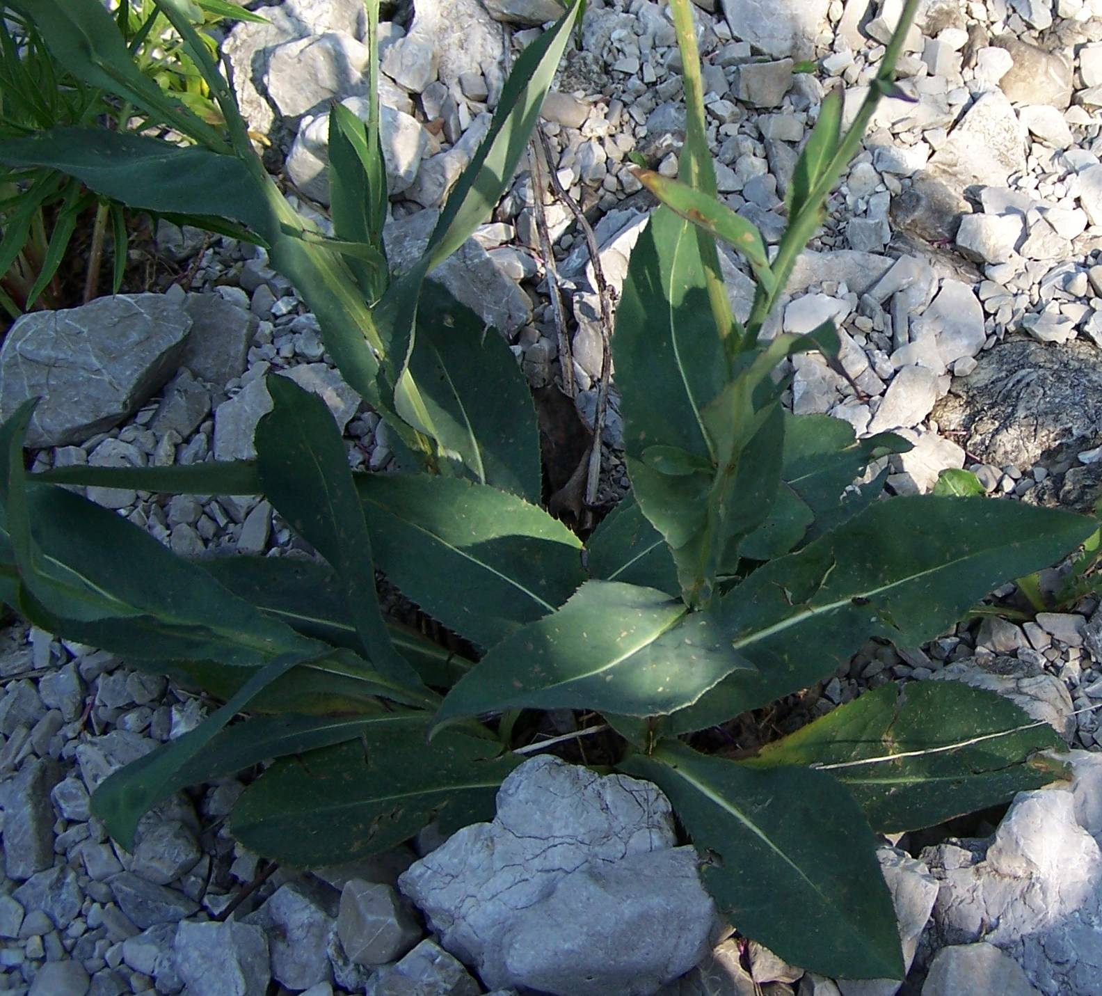 Carduus glaucus (pl. oset siny), habitat: Tatra Mountains, Dolina Jaworzynka